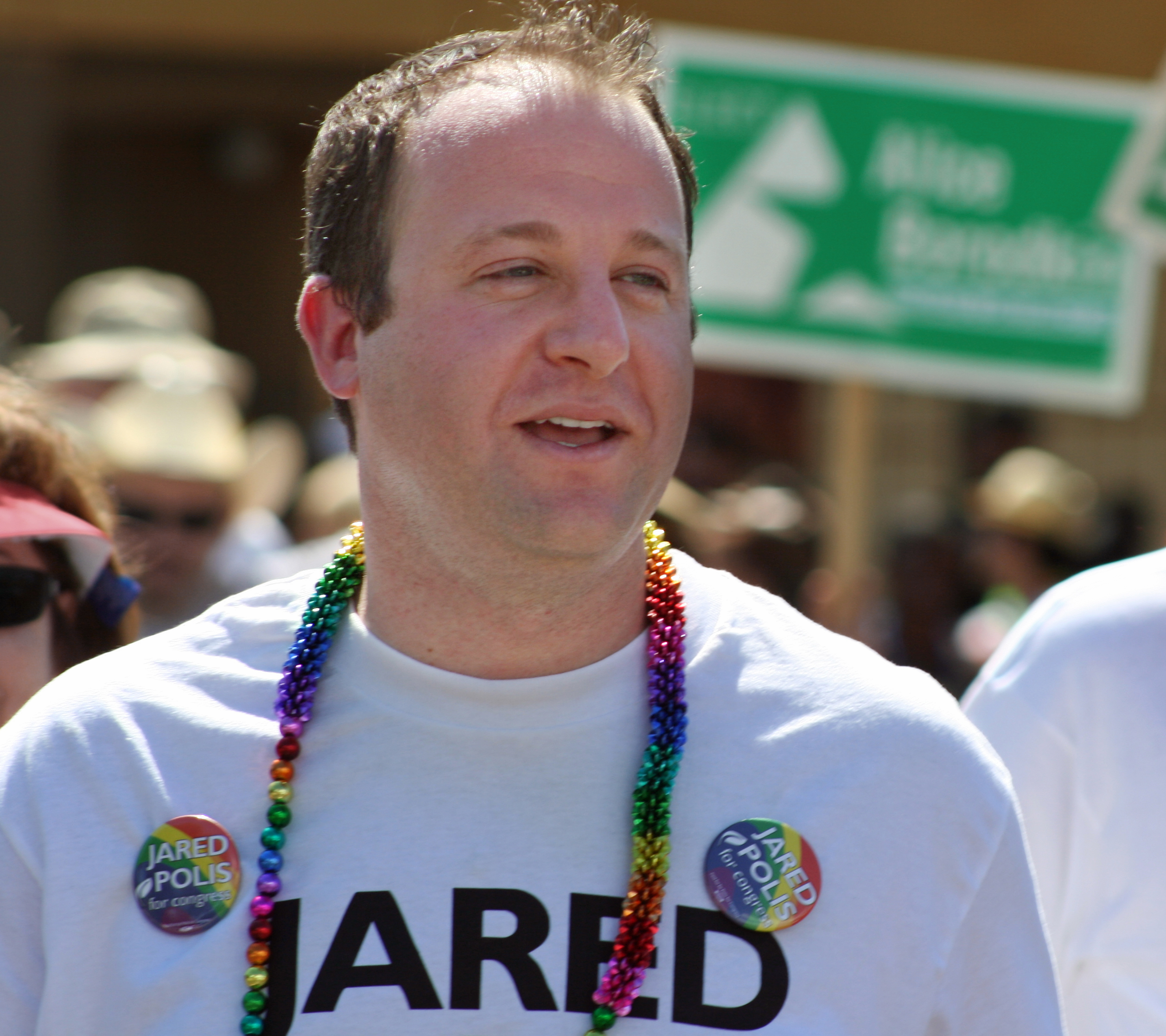 Jared Polis, Colorado politician.